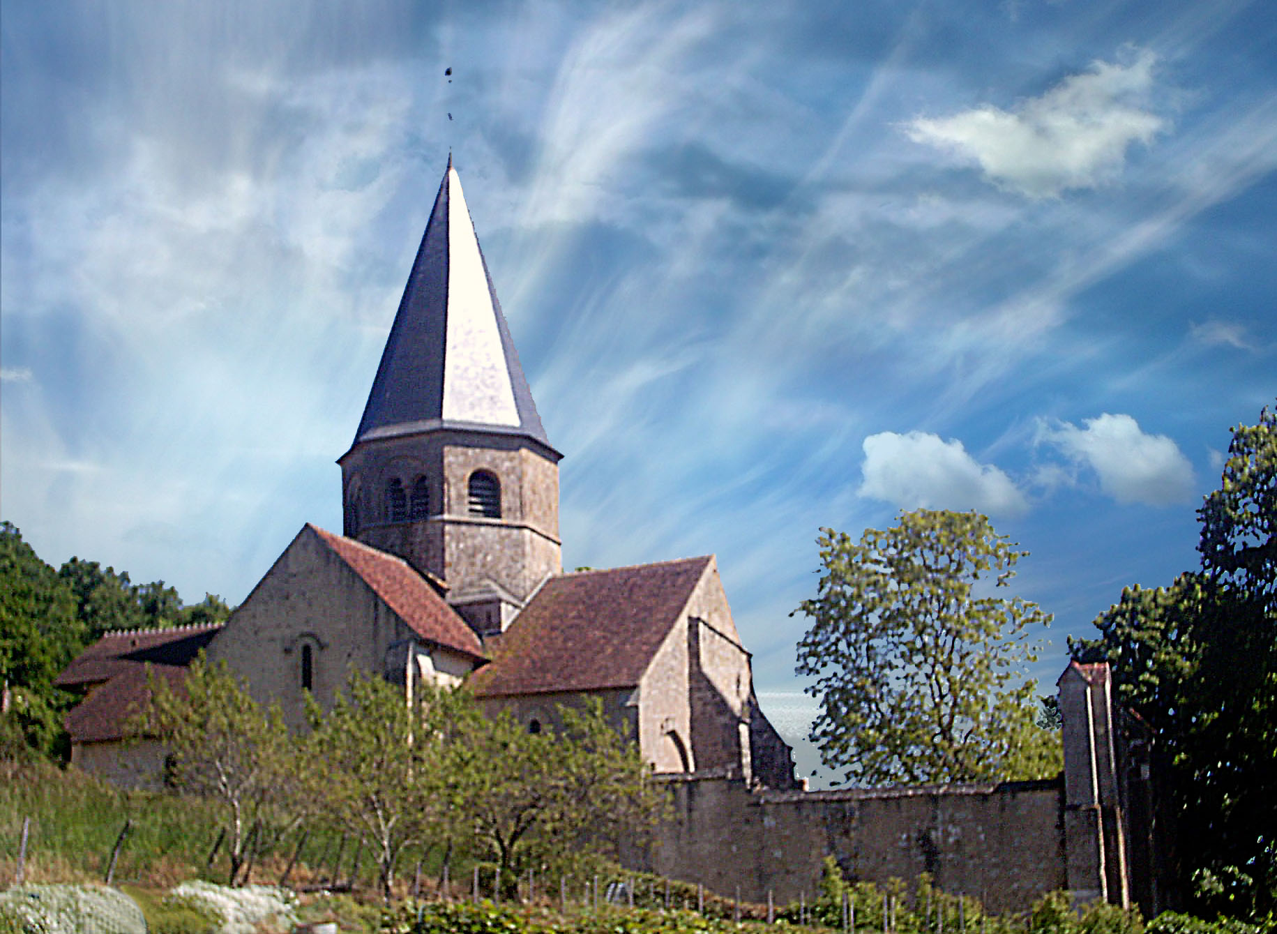 Romanesque church from the 12th Century